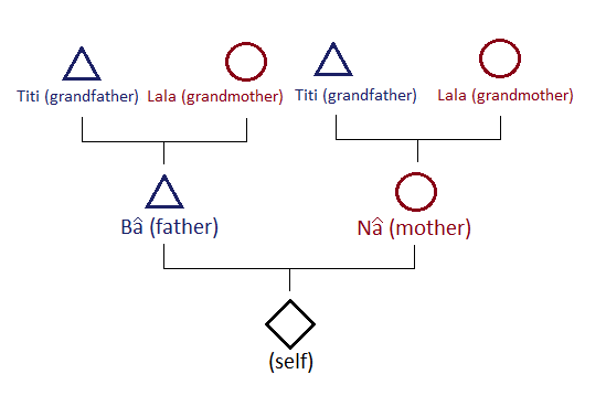 A sample family tree to show Byangsi kinship terminology. It shows genealogy up to the level of grandparents.